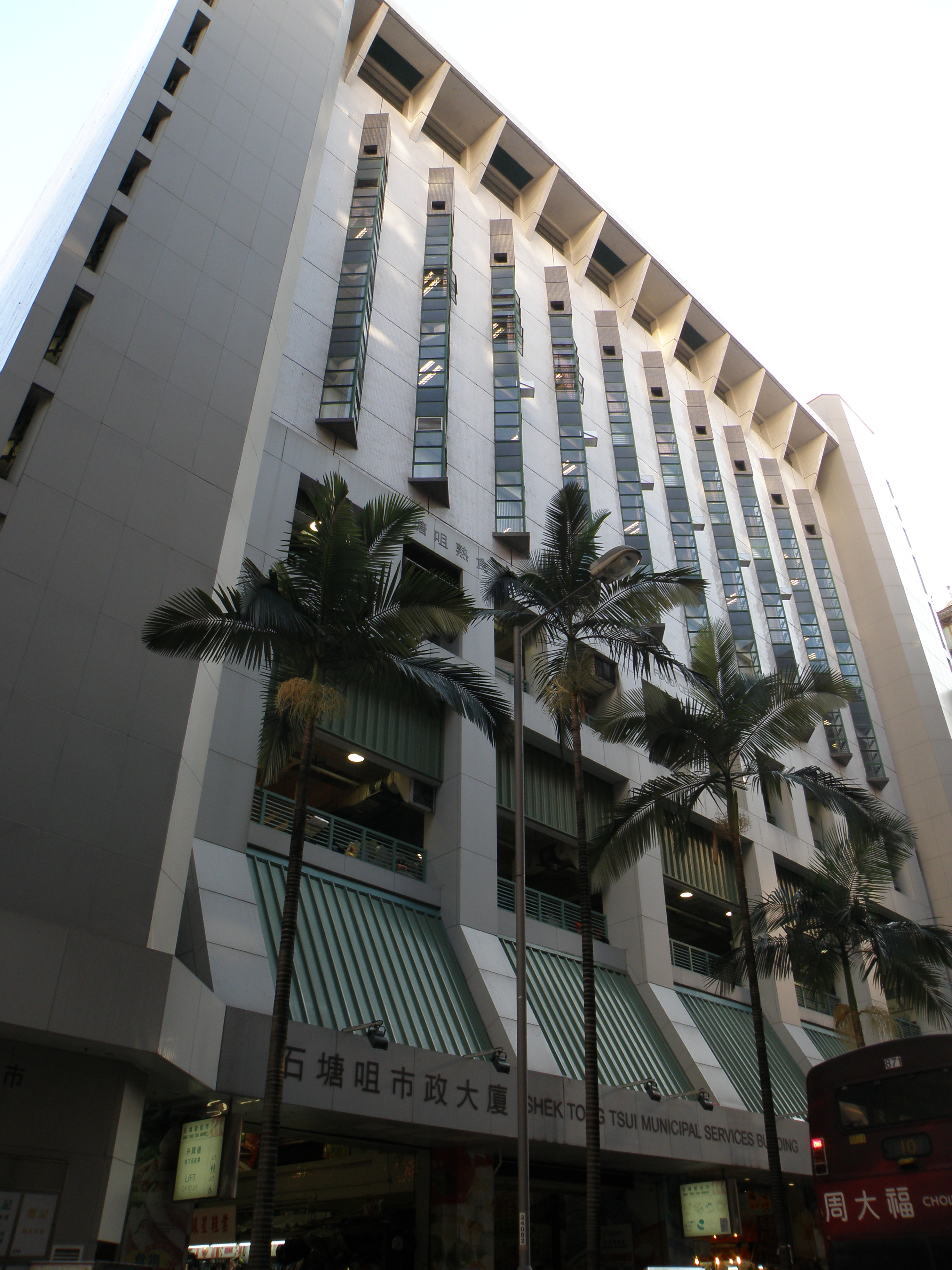 Shek Tong Tsui Municipal Services Building in Shek Tong Tsui, Hong Kong.